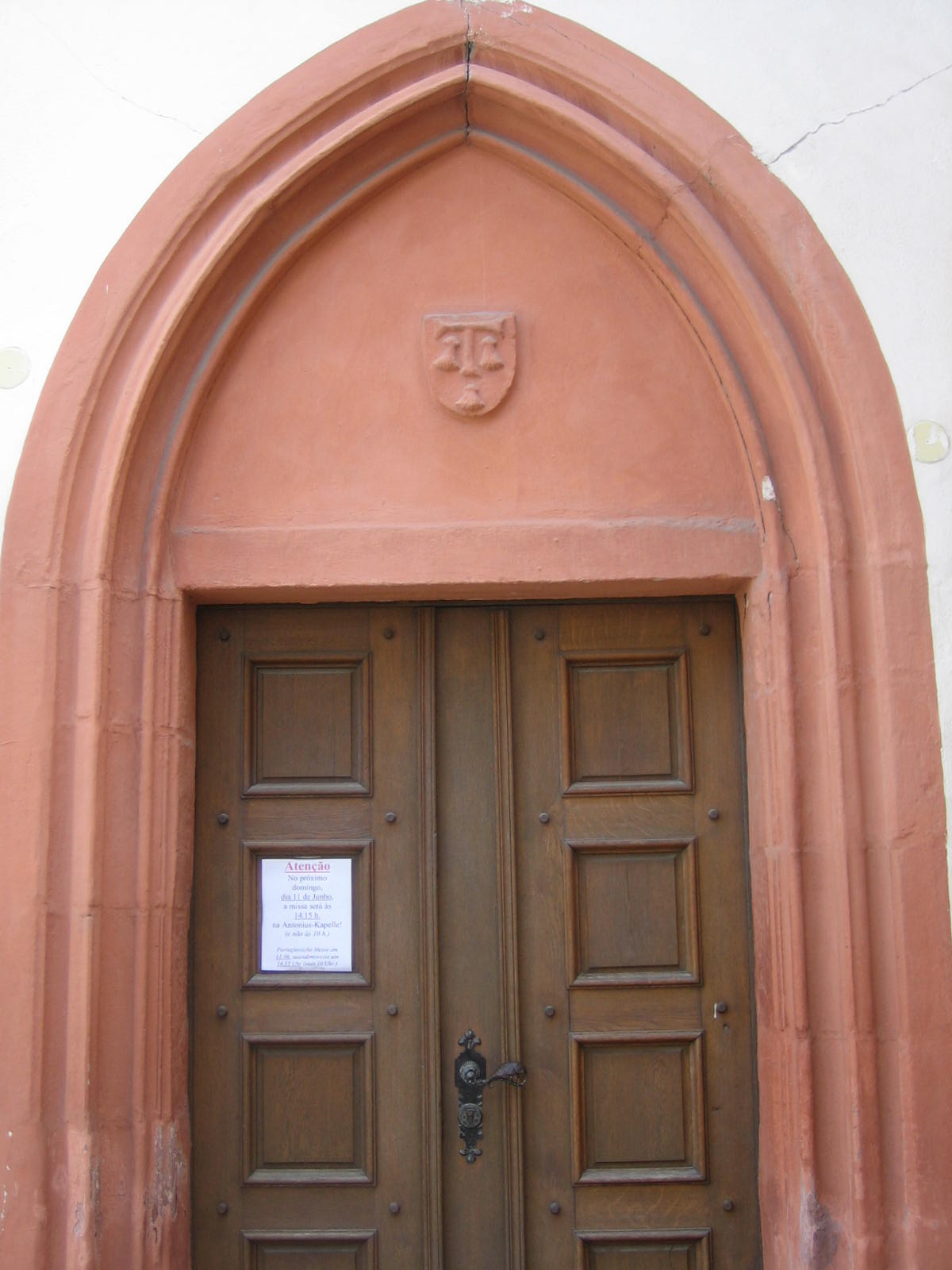 Cross of the Canonici Regulares Sancti Antonii at the portal of Antoniter chapel in Mainz